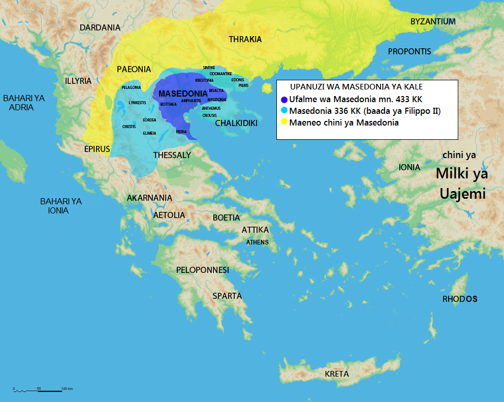 Ancient Macedon, from file:expansionofmacedon.jpg, swahilized Kiswahili: Masedonia ya Kale wakati wa Filippo II na Aleksander; kutokana na file:expansionofmacedon.jpg